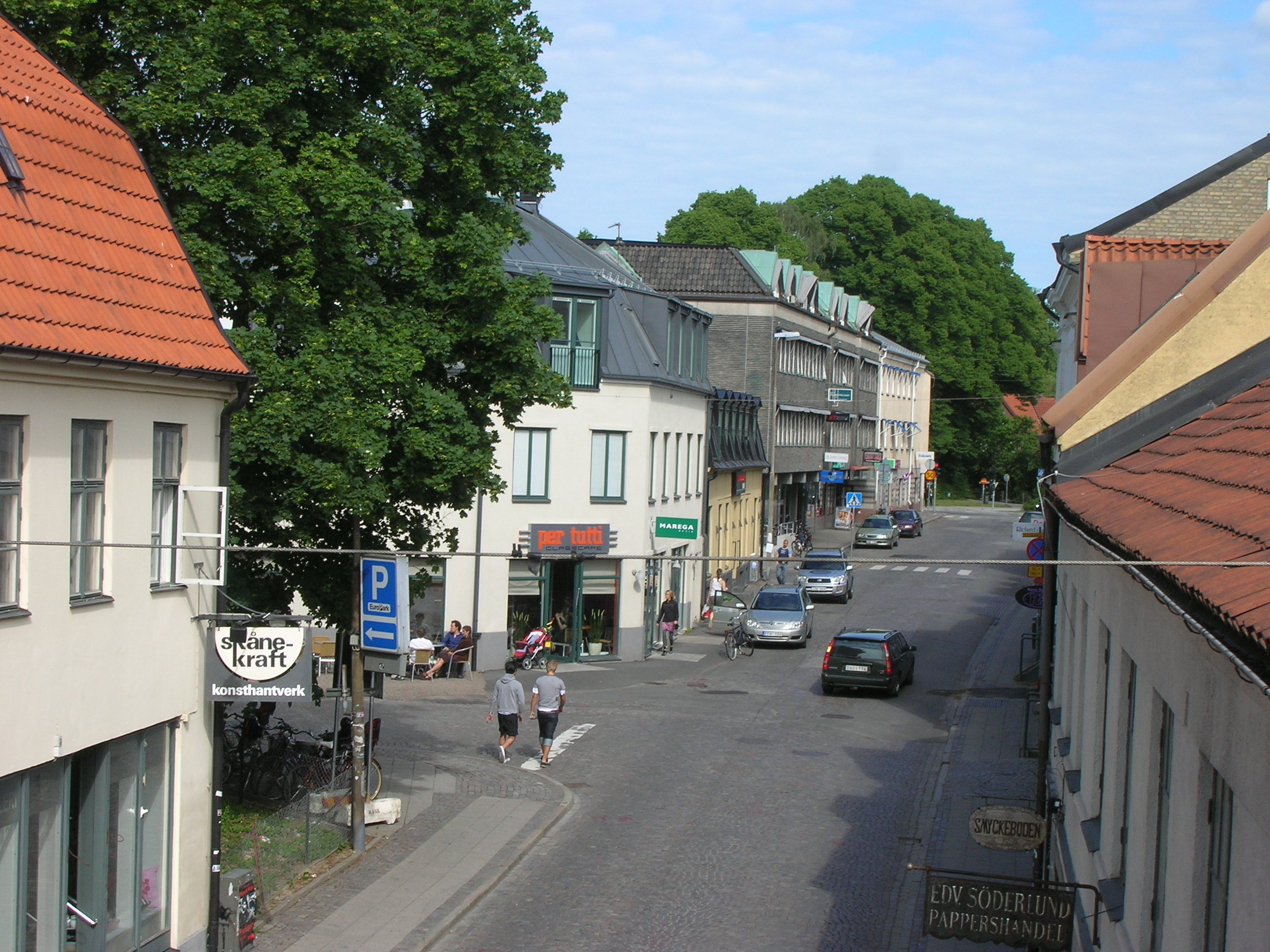 Östra Mårtensgatan in Lund in June 2007.